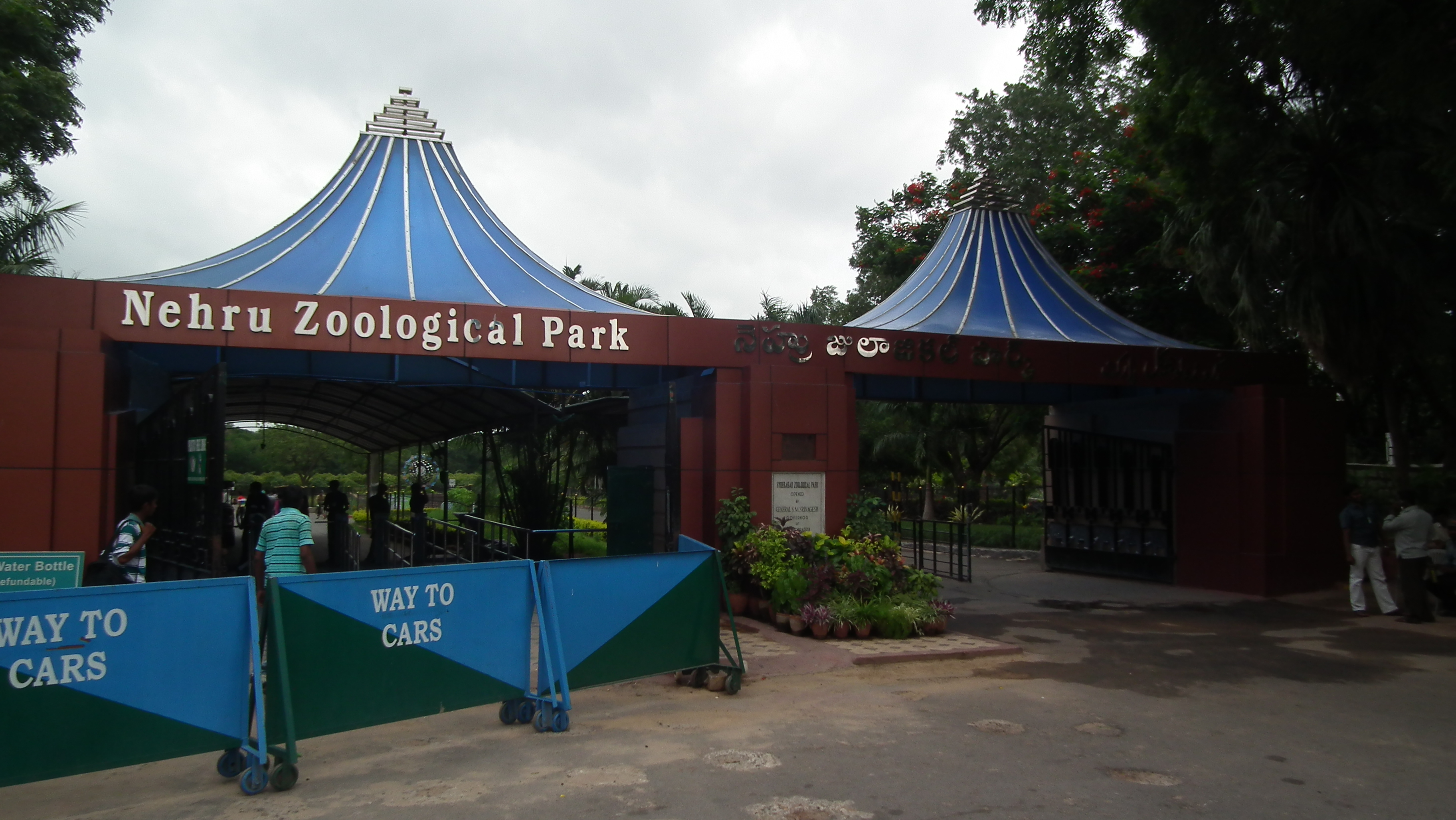 Photo from Nehru Zoological Park, Hyderabad, India.